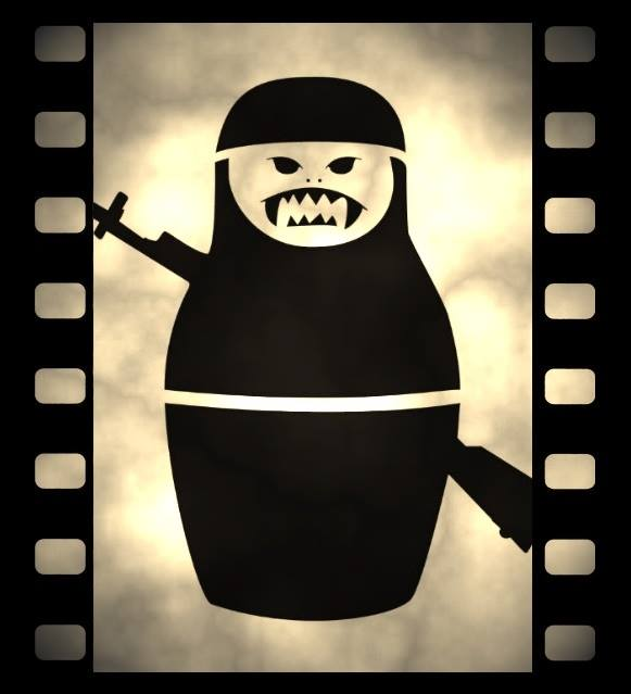 Logo of "Boycott Russian Films" campaign. Picture made by activist of "Vidsich".